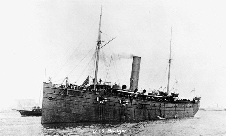 Navy photo of USS Badger (1889)